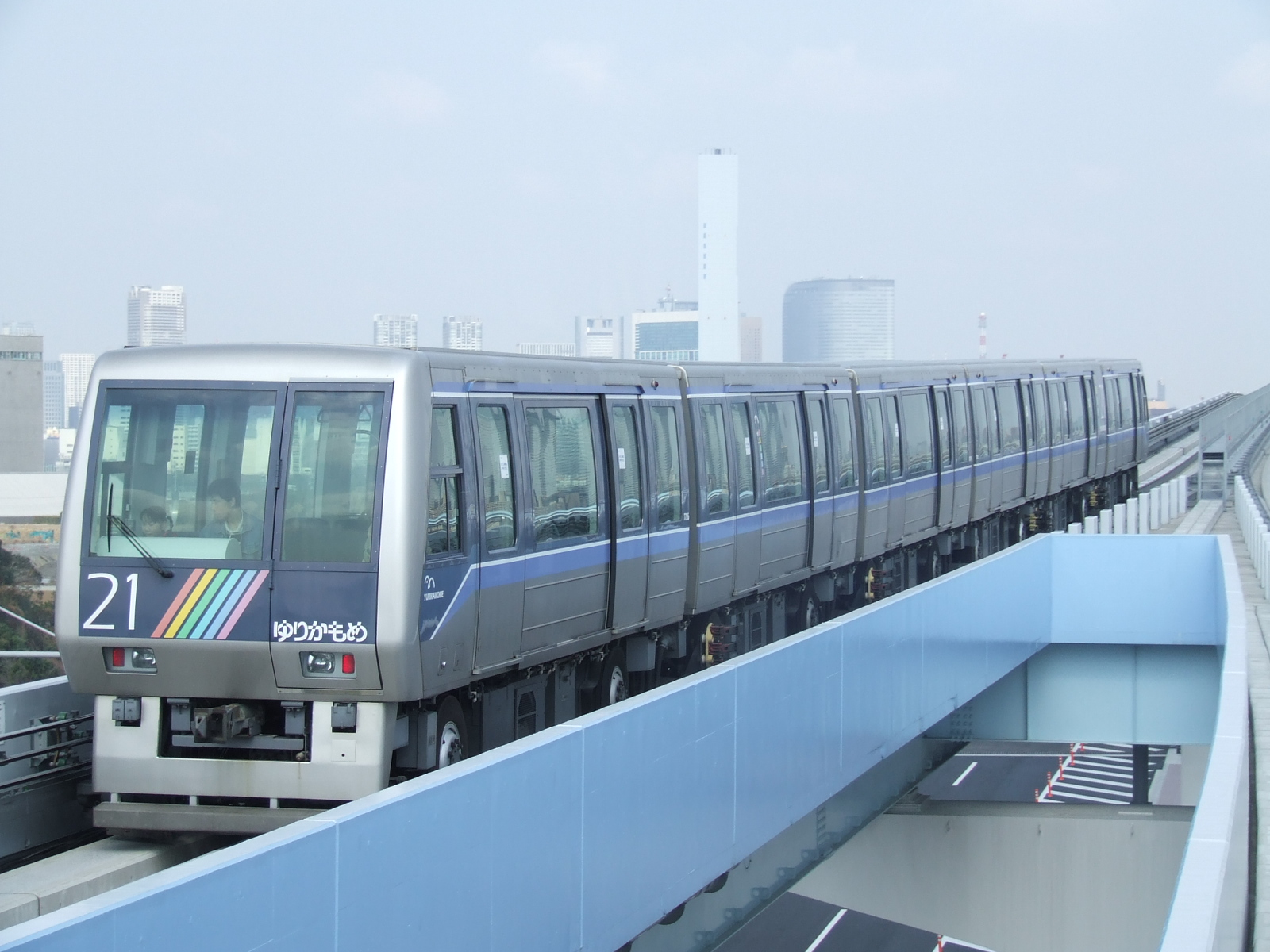 Yurikamome 7200 series set 21